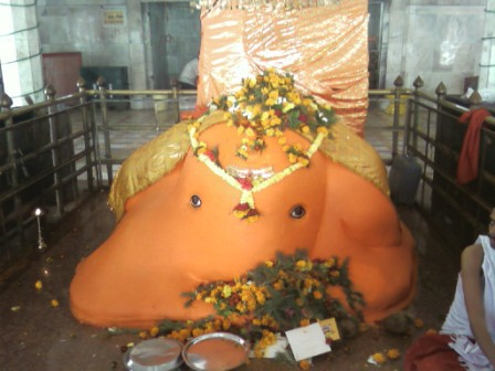 A picture of lord ganesh .this temple is situated at Nagpur.